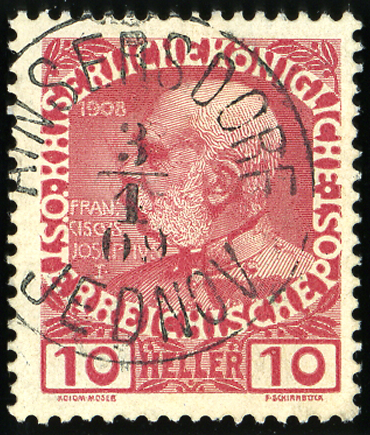 Austrian KK 10 heller Jubilee stamp, bilingual cancelled AINSERSDORF - JEDNOV (Moravia) in 1909.